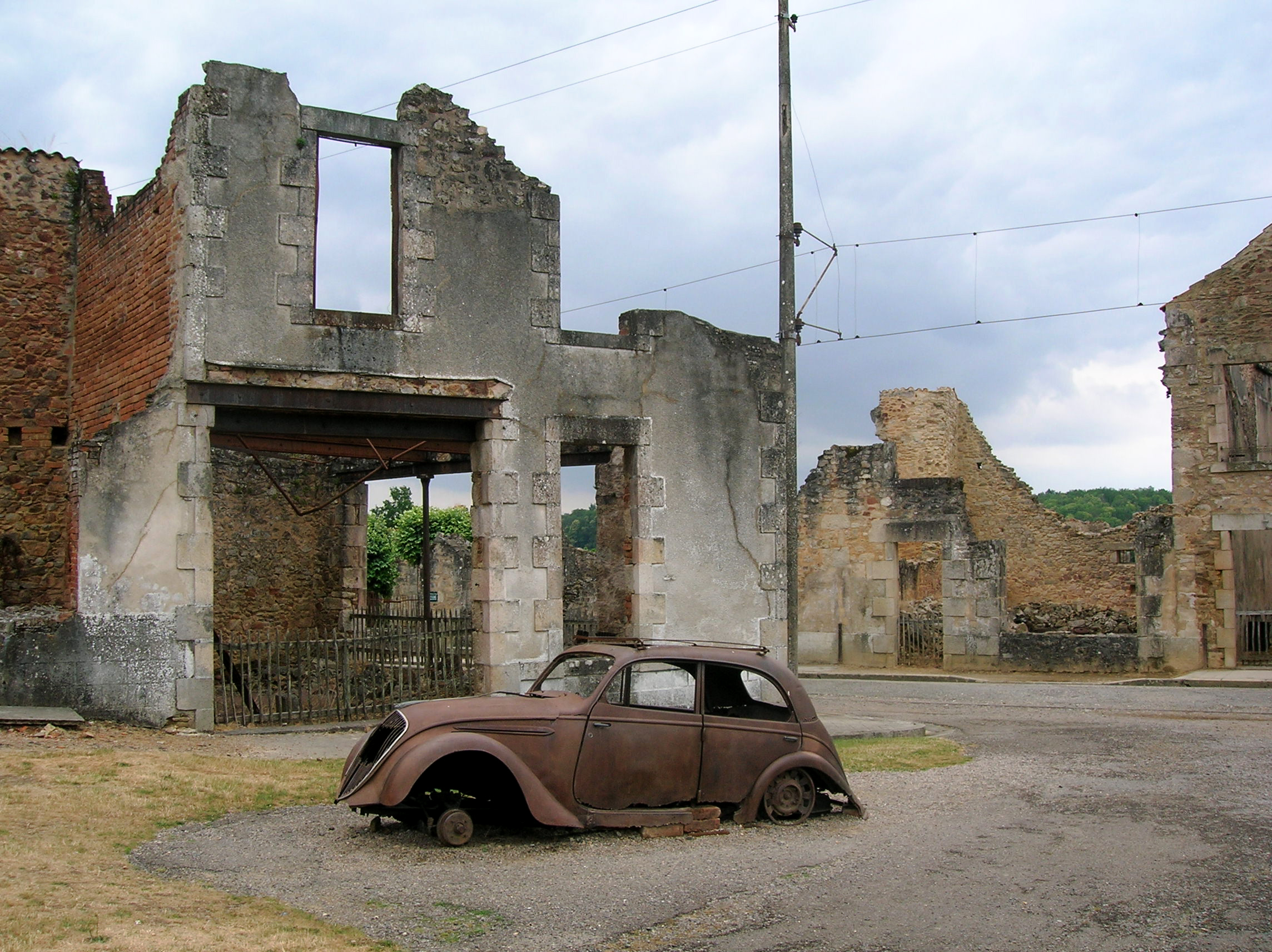 Decayed Peugeot 202 and some buildings in Oradour-sur-Glane.